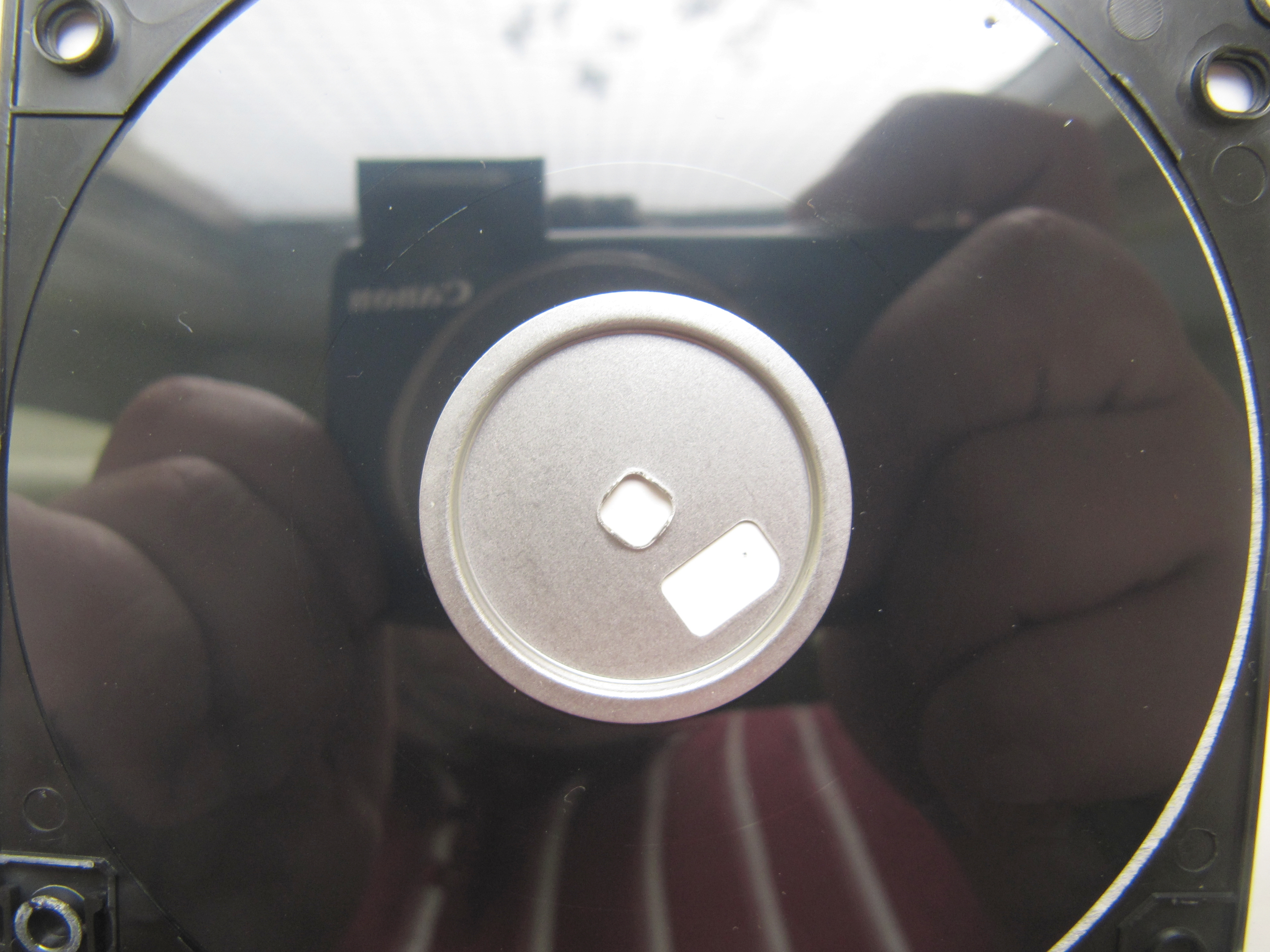 The data disc inside a 3.5" diskette (macro). The diskette was already unreadable before it was opened.